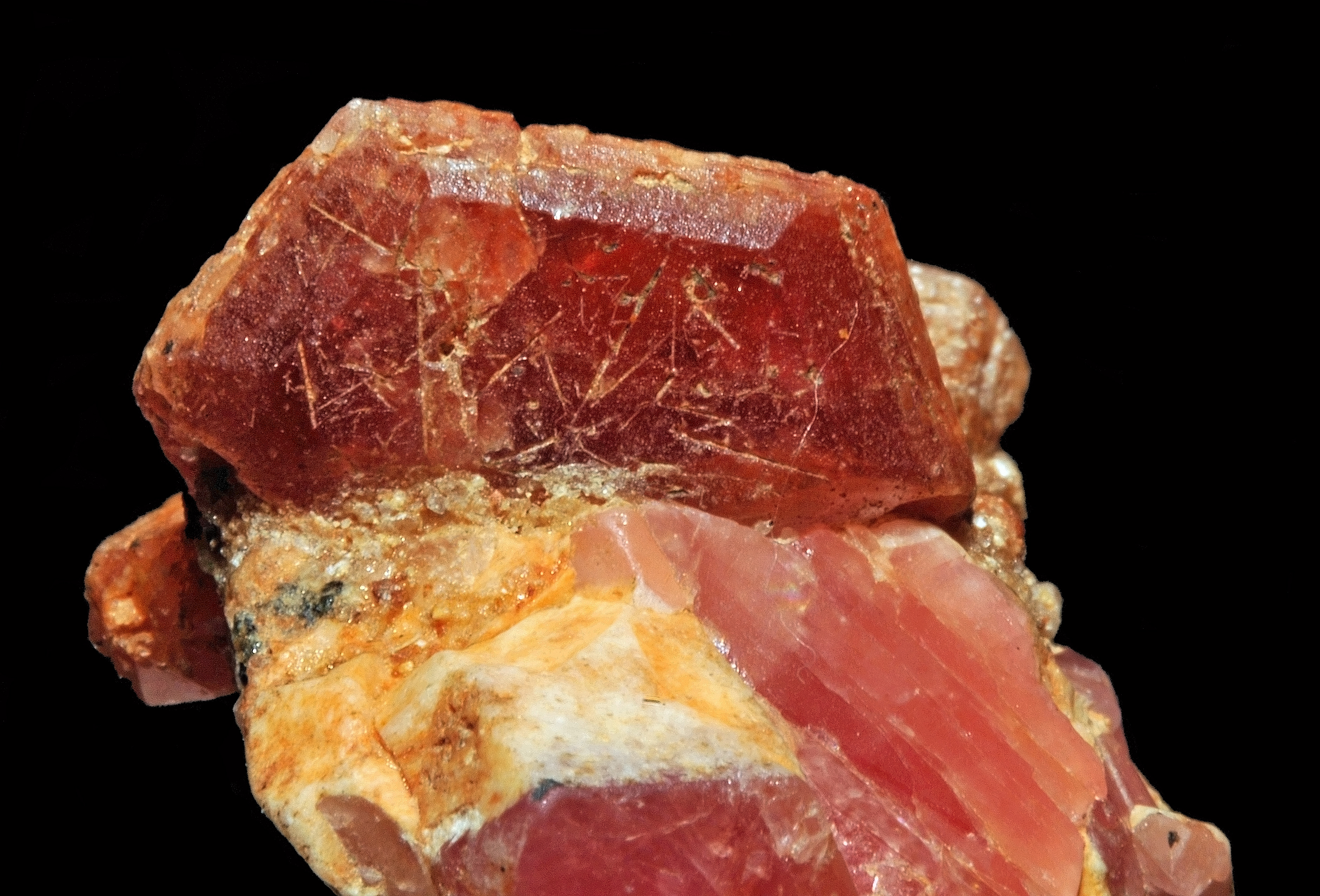 crystals of pezzottaite : Sakavalana mine, Ambatovita, Mandrosonoro area, Ambatofinandrahana District, Amoron'i Mania Region, Fianarantsoa Province, Madagascar - crystal : 14 mm